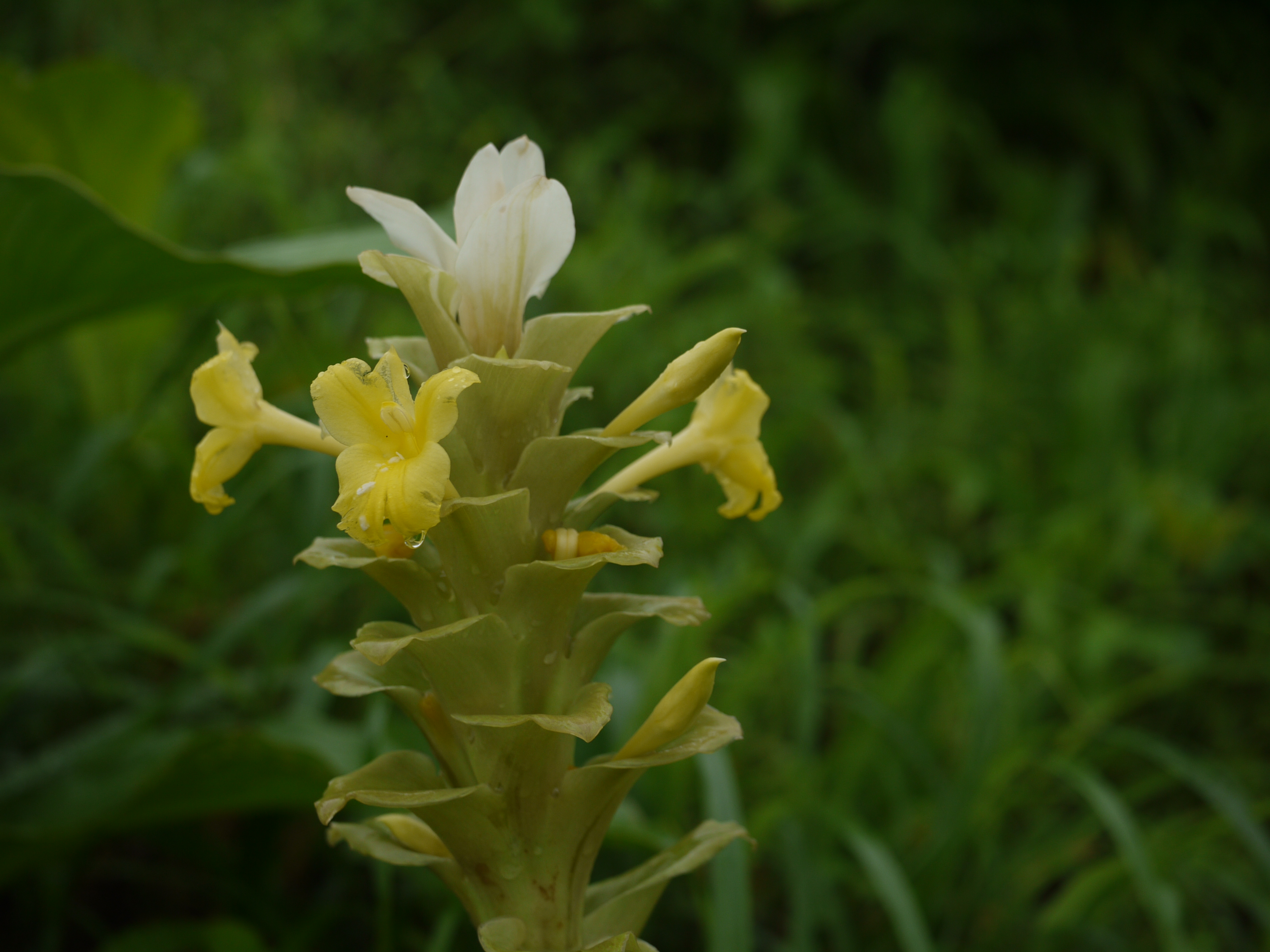 Zingiberaceae (ginger family) » Hitchenia caulina (J.Graham) Baker ¿ hitch-YEN-ee-uh ? -- perhaps named for Thomas Hitchen, Esquire of Norwich ¿ kaw-LEE-nuh ? -- perhaps referring to the flowers borne on the stem commonly known as: arrowroot lily, Indian arrowroot, Mahabaleshwar arrowroot • Marathi: चवर chavar, कचर kachar, सीताचवरी sitachavari Endemic to: Western Ghats (of Maharashtra and Goa, India) References: Flowers of India • NPGS / GRIN • Gazetteers Dept. • cd3wd • Flowers of Sahyadri by Shrikant Ingalhalikar